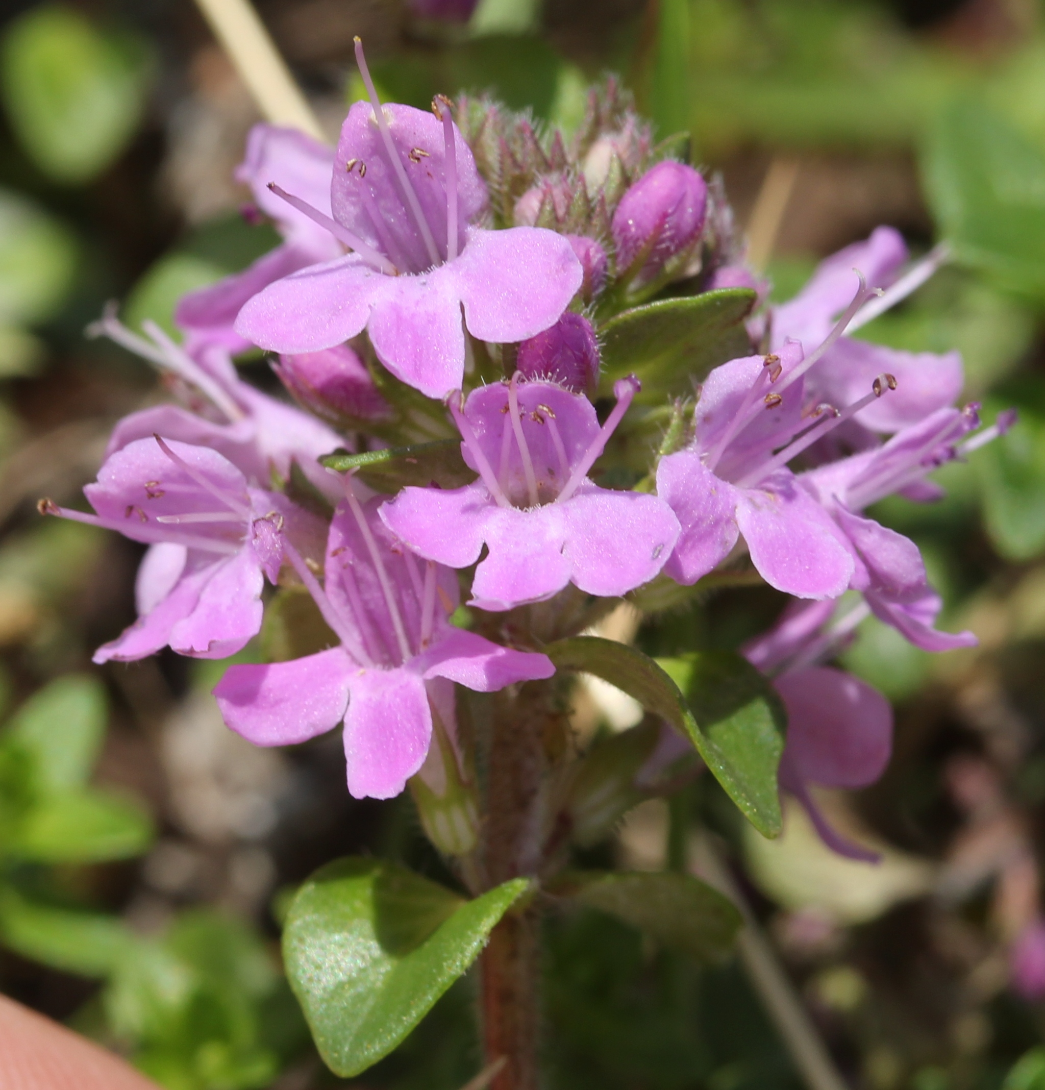 Thymus quinquecostatus, detail of the flower, in Mount Ibuki, Maibara, Shiga prefecture, Japan.